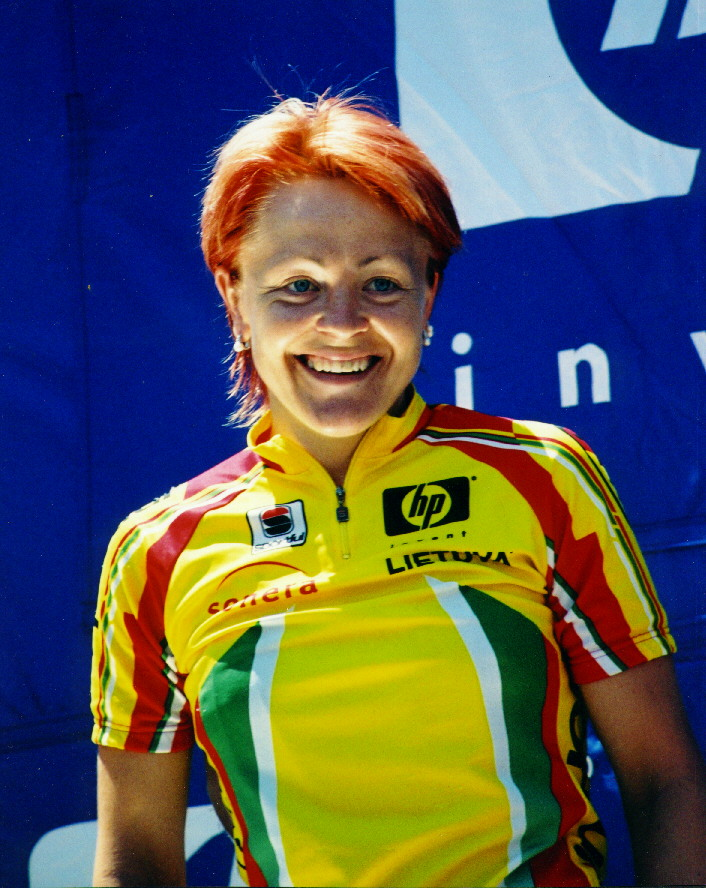 Diana Ziliute on the podium after winning the final stage (stage 9 - Emmett to Boise Hyde Park) of the 2002 Women's Challenge cycle race.